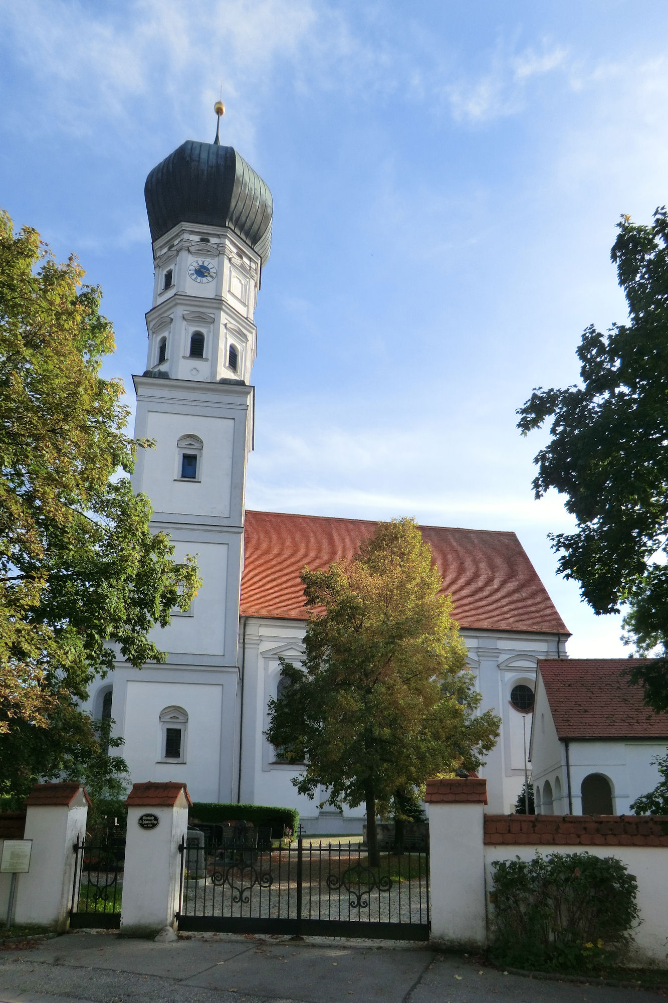 Church of Saint John the Baptist Native nameSt Johannes der TäuferLocationKaufering, Upper Bavaria, GermanyCoordinates48° 05′ 28.11″ N, 10° 52′ 43.55″ E